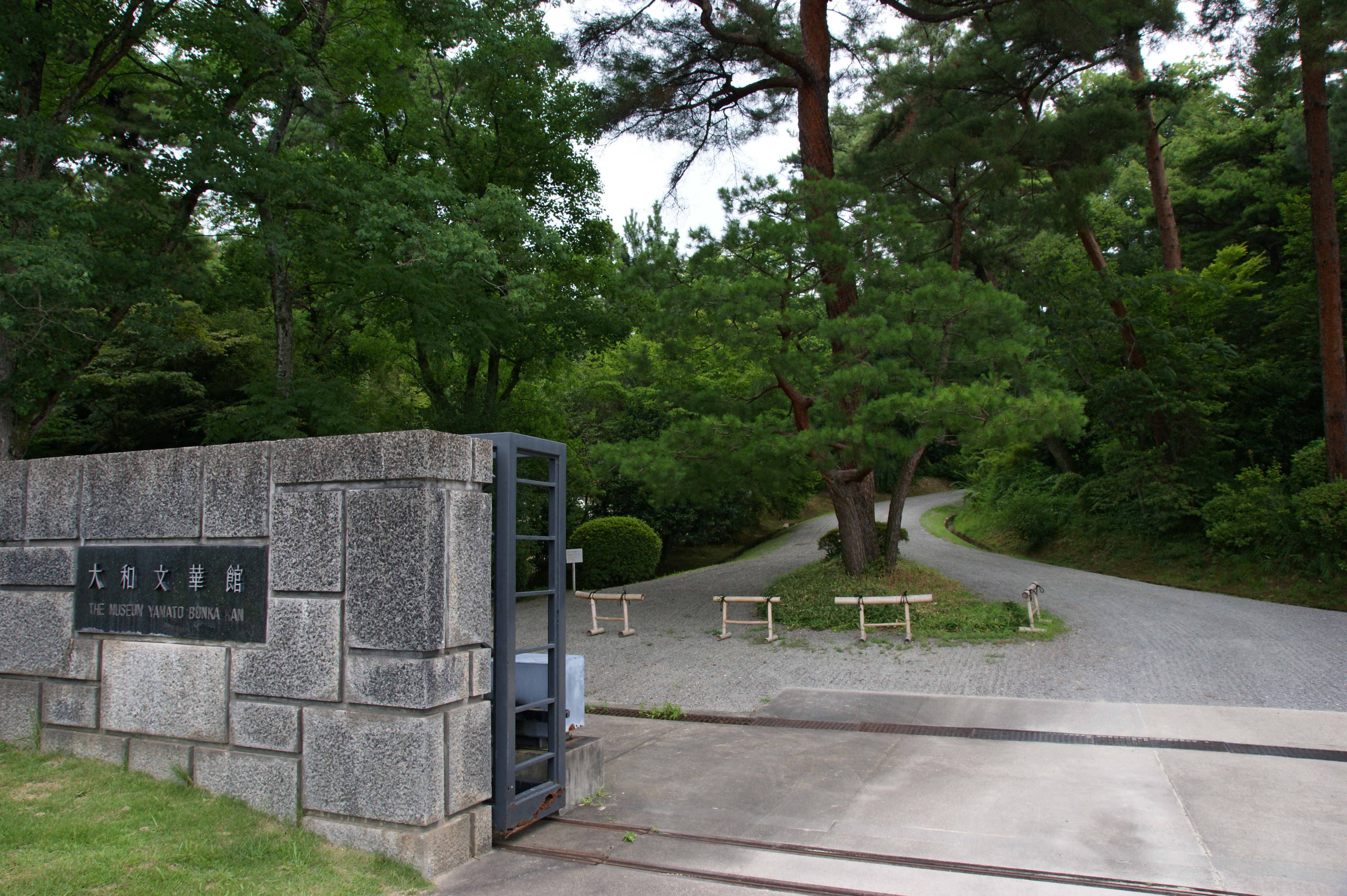 The Museum Yamato Bunka Kan in Nara, Nara prefecture, Japan